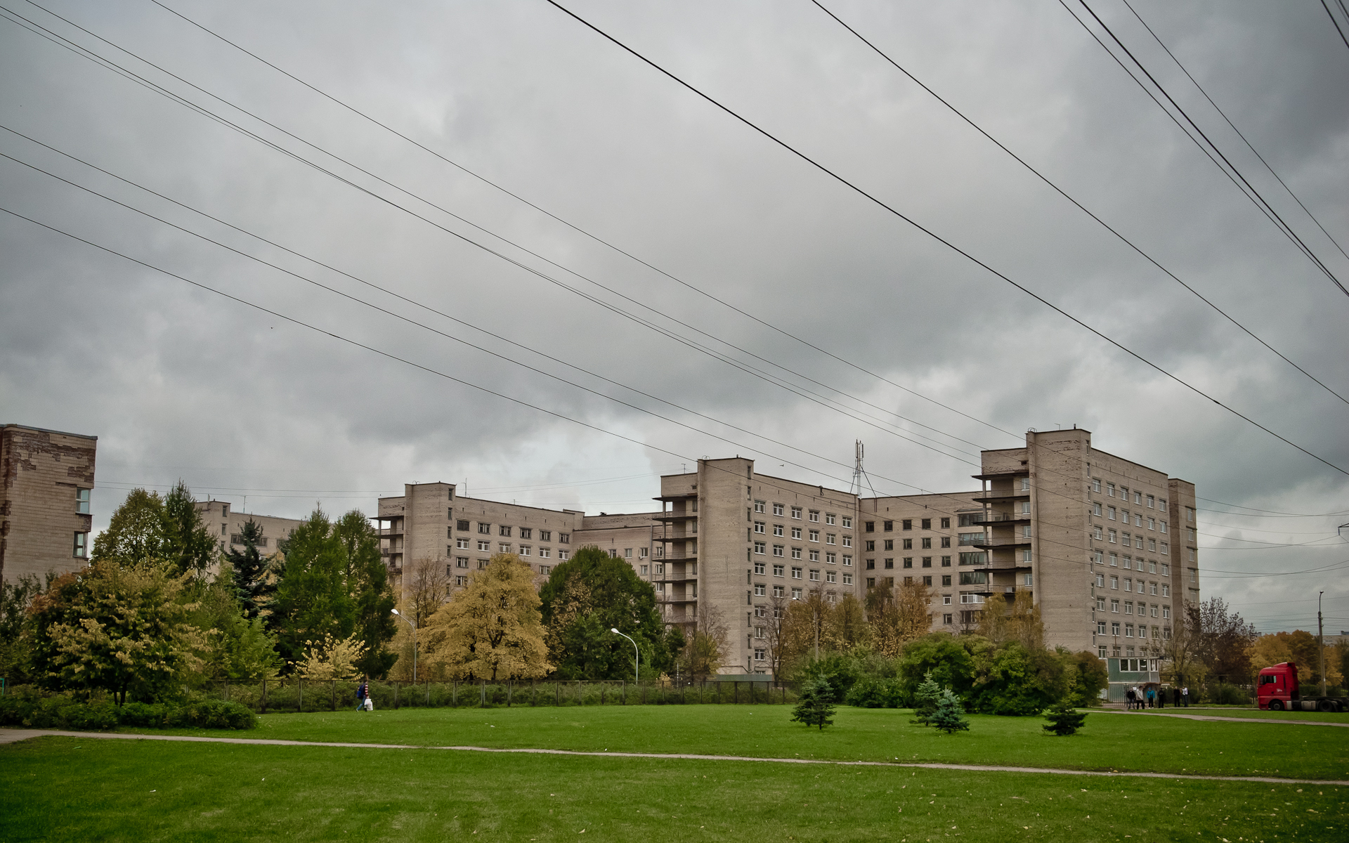 St. Elisabeth hospital, Vavilovykh street, Saint Petersburg, Russia